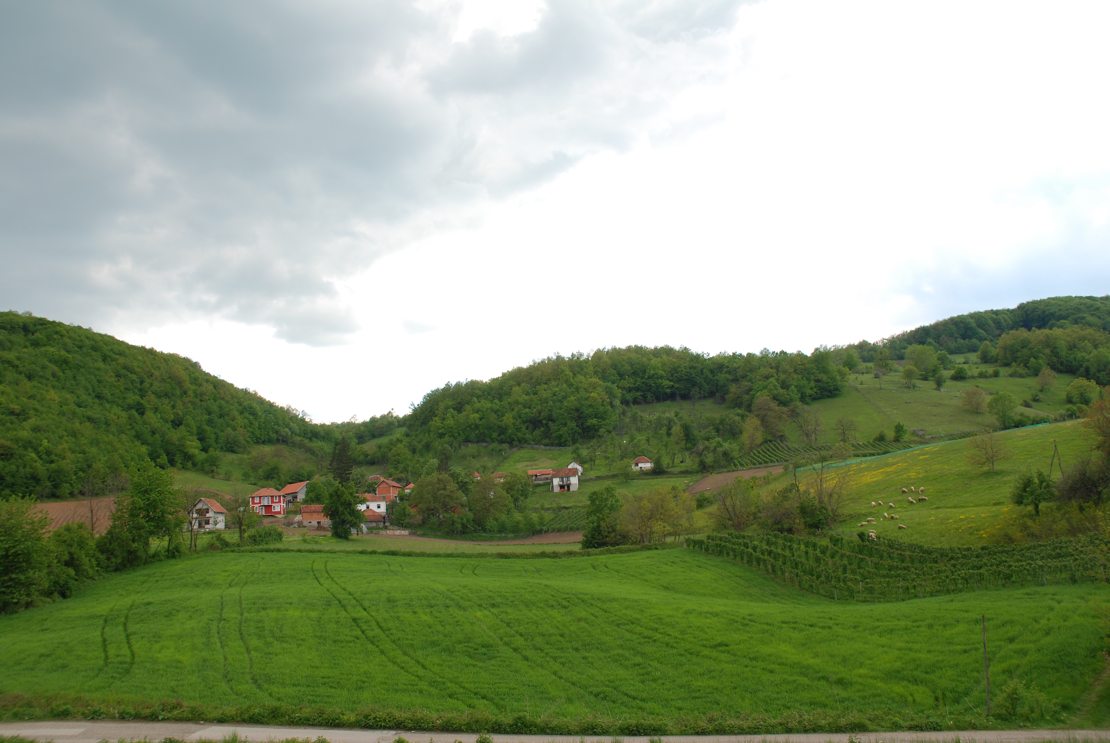 Povlen - Western Serbia - eastern slopes of the mountain - the village of Brezovica - Looking towards the place Cerik 2